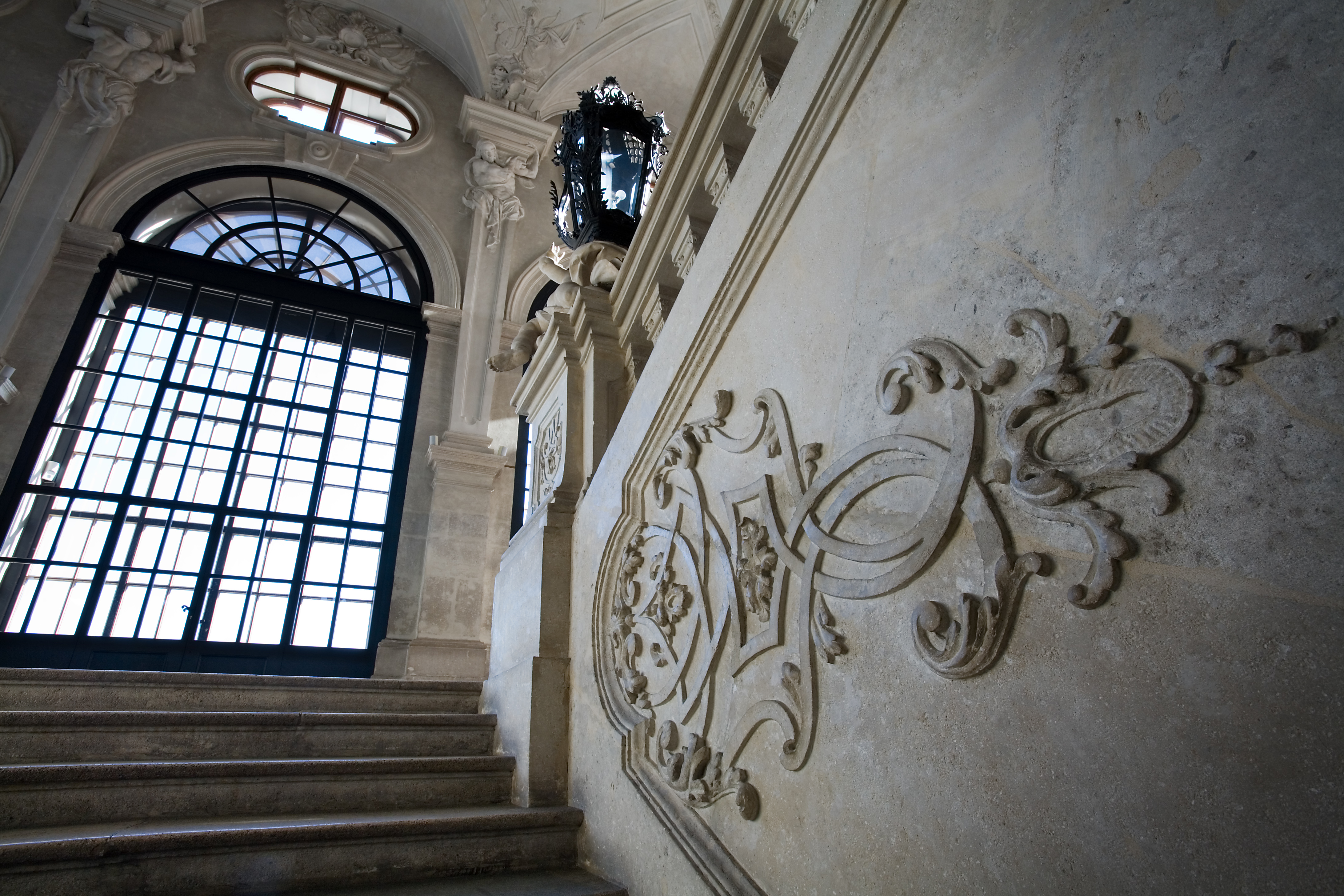 Belvedere Palace, Vienna, Austria